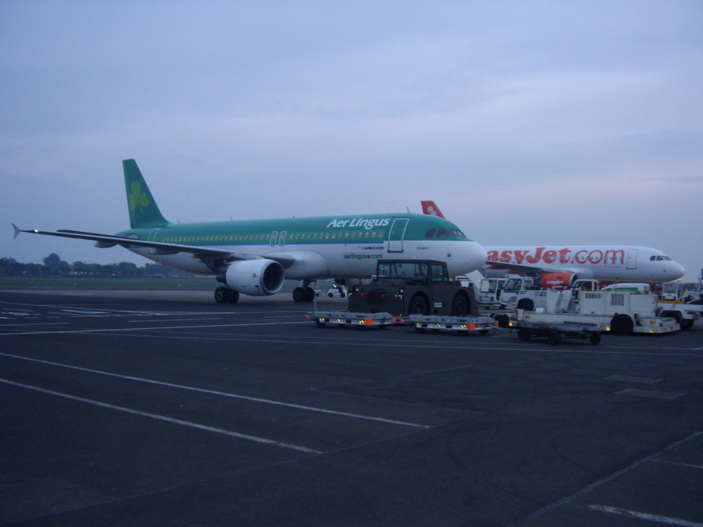 An Aer Lingus Airbus A320 and a EasyJet Airbus A319 on the airport ramp at Belfast International Airport.